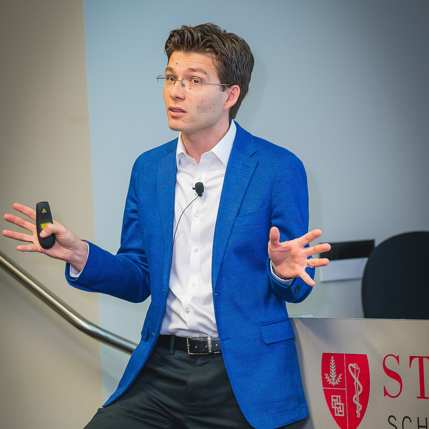 Born January 30, 1982 in Cluj-Napoca